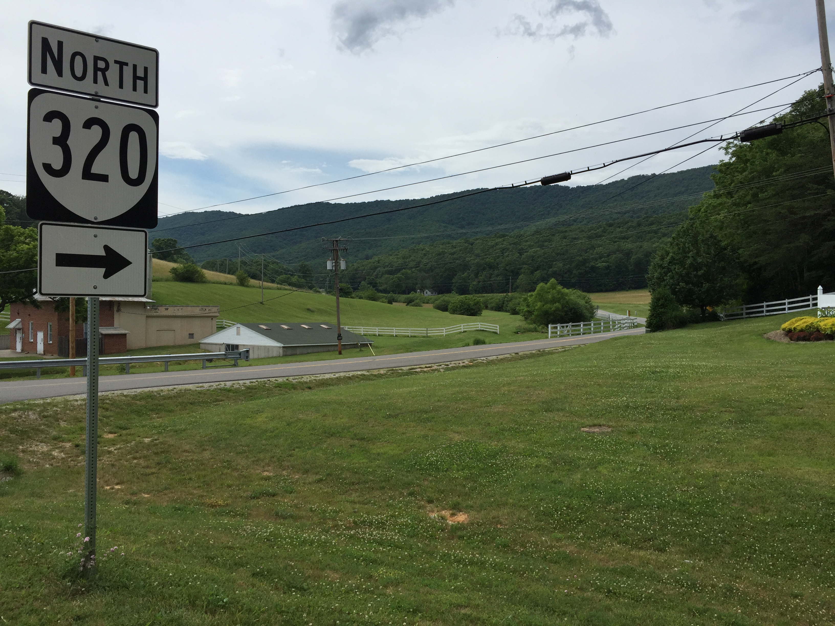 View north along Virginia State Route 320 (Catawba Hospital Drive) at Virginia State Secondary Route 779 (Catawba Creek Road) in Catawba, Roanoke County, Virginia